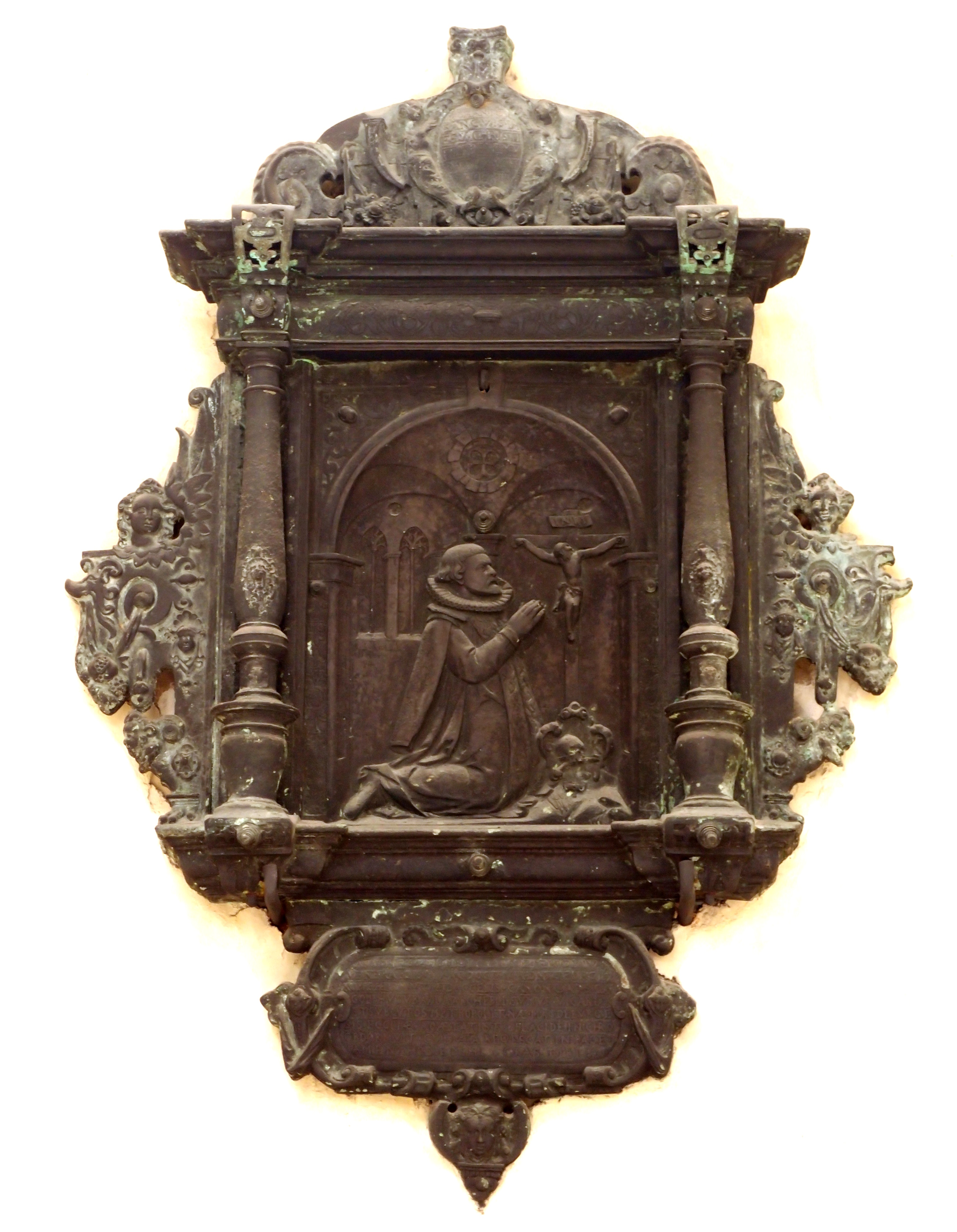 Epitaph for Georg Koppehele at the Cathedral of Magdeburg. It is an ornate bronze plate mounted to the wall of the church's southern aisle. The honoured was a church dignitary in the sixteenth century.